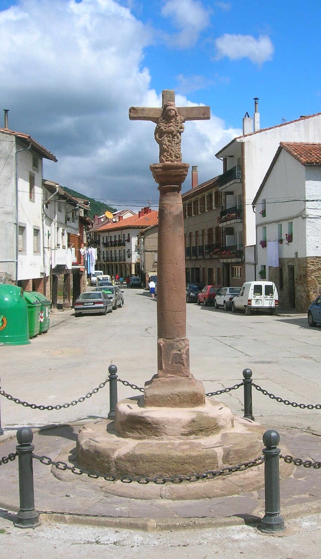 Stone cross in St. Lazare's street in Ezcaray, La Rioja, Spain.